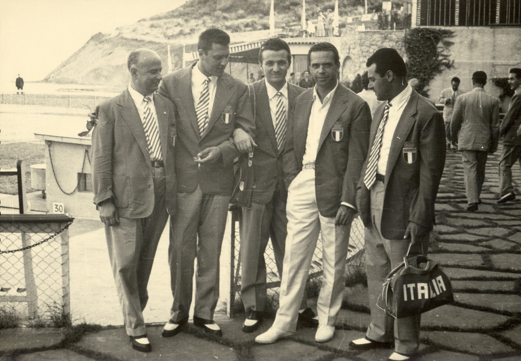 Alessandro Ciceri, Bronze Medal at The 1956 Olympic Games, At the Mediterrean Games in barcelona in 1955